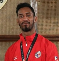 Samuel Morrison, 2017 Southeast Asian Games -74 kg Taekwondo gold medalist